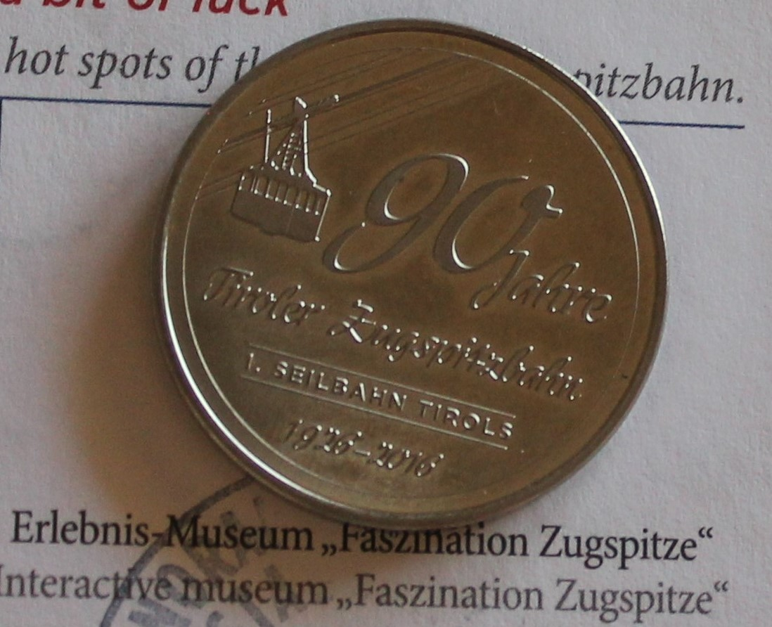 Tiroler Zugspitze Wire Ropeway 90 Years Anniversary - Jubilee Medal